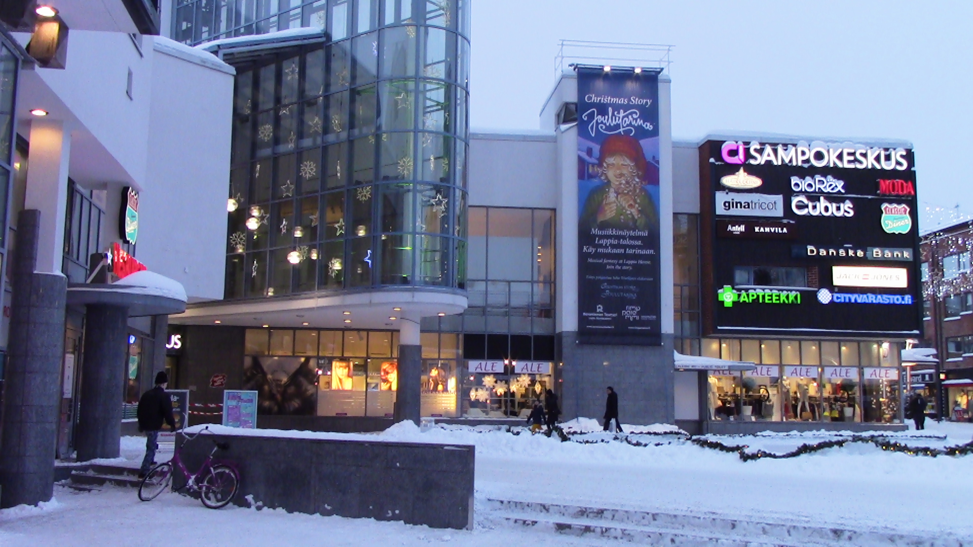 Sampokeskus shopping center in Rovaniemi, Finland. In the picture you can see the entrance of Lordi square.